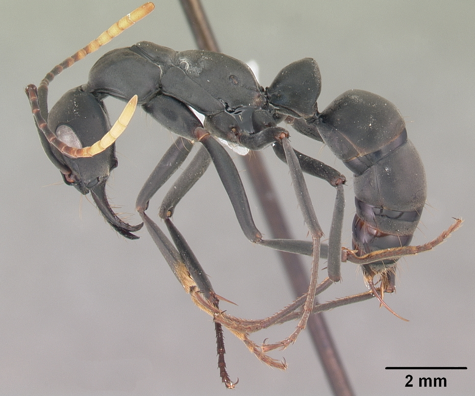 Profile view of ant Pachycondyla apicalis specimen casent0103059.